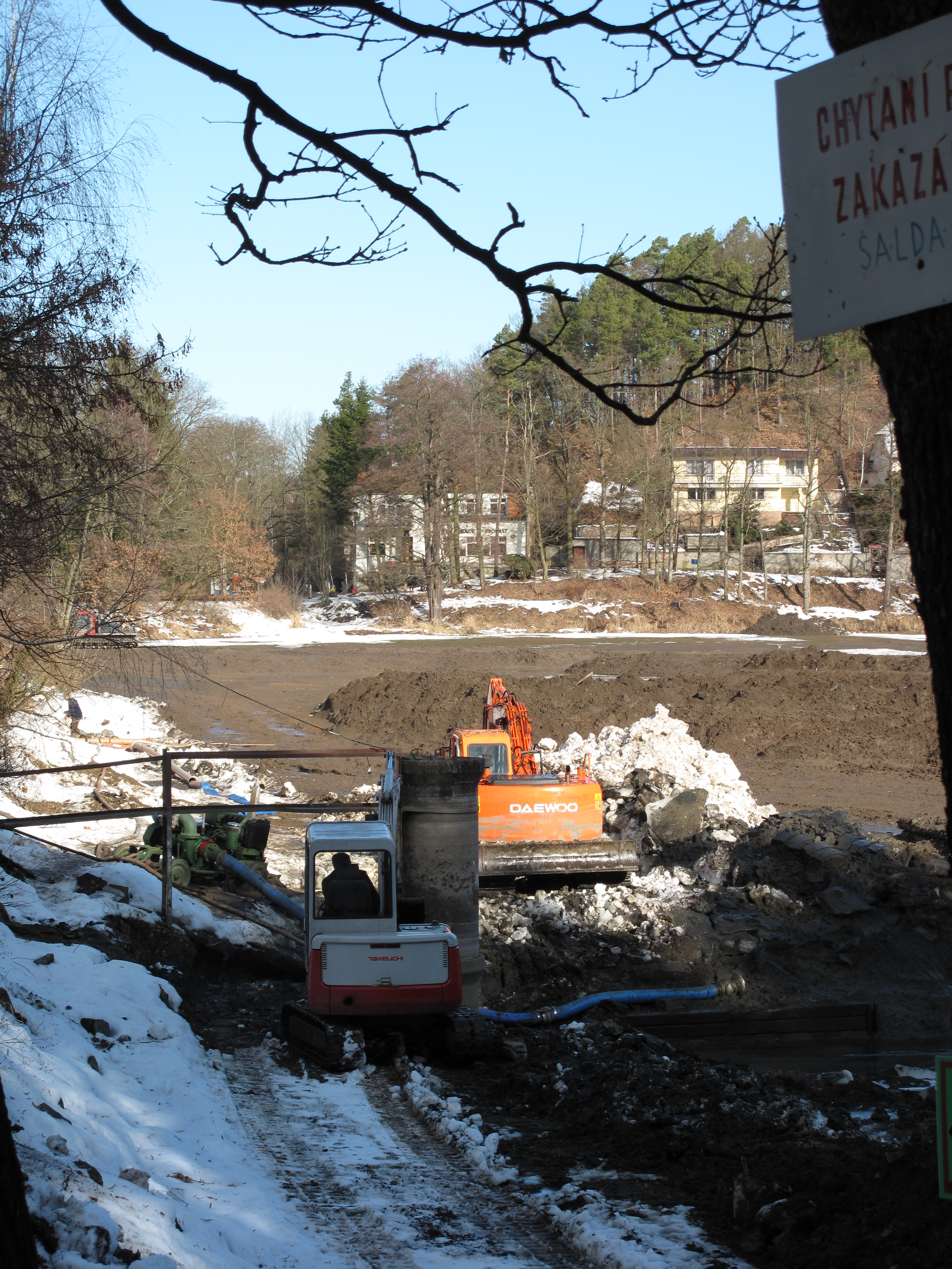 Silt removal in Propast Pond, slit removal near drainage pond outlet, Hradec (Stříbrná Skalice), Prague-East District, Czech Republic. This photograph was taken within the scope of the 'Czech Municipalities Photographs' grant.